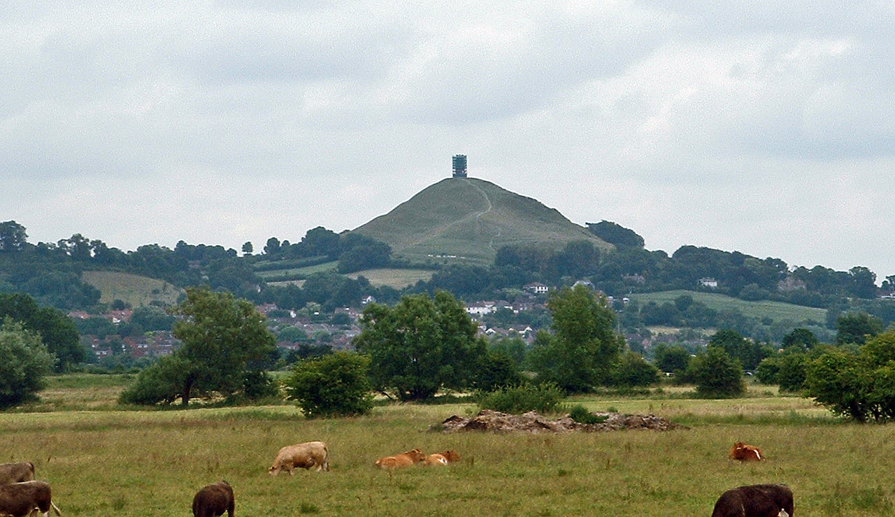 Glastonbury Tor, England. Taken by Necrothesp, 5 July 2003.